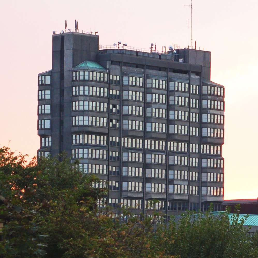 Aylesbury county hall sunset